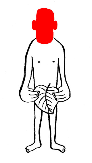 Adam suddenly felt ashamed when he discovered that he was naked.